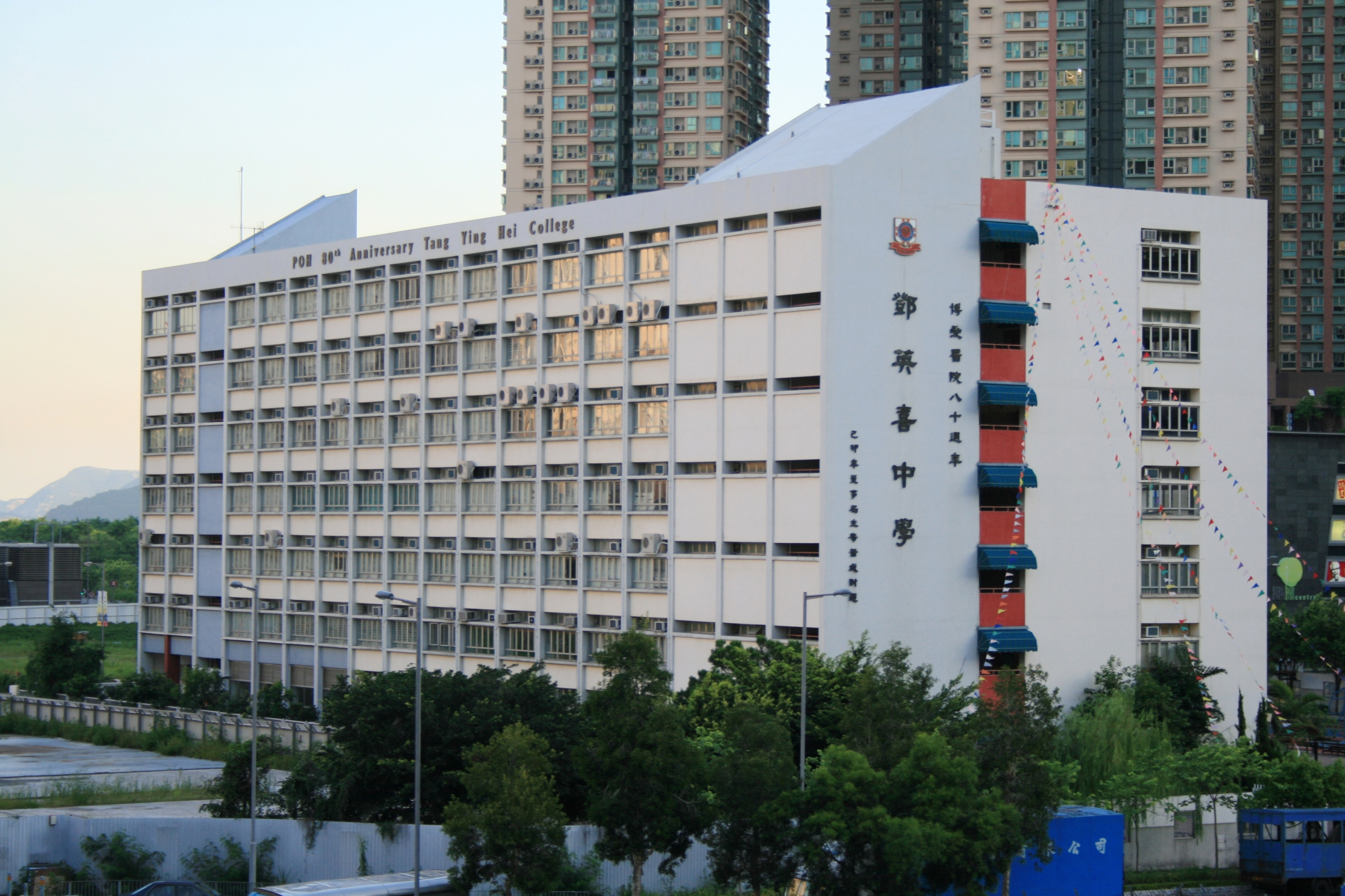 Pok Oi Hospital 80th Anniversary Tang Ying Hei College 博愛醫院八十週年鄧英喜中學